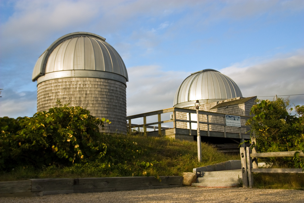 Buildings of the Maria Mitchell Liones Observatory on Nantucket Island, Mass. (Original size is on Flickr under CC-BY-SA-3.0)